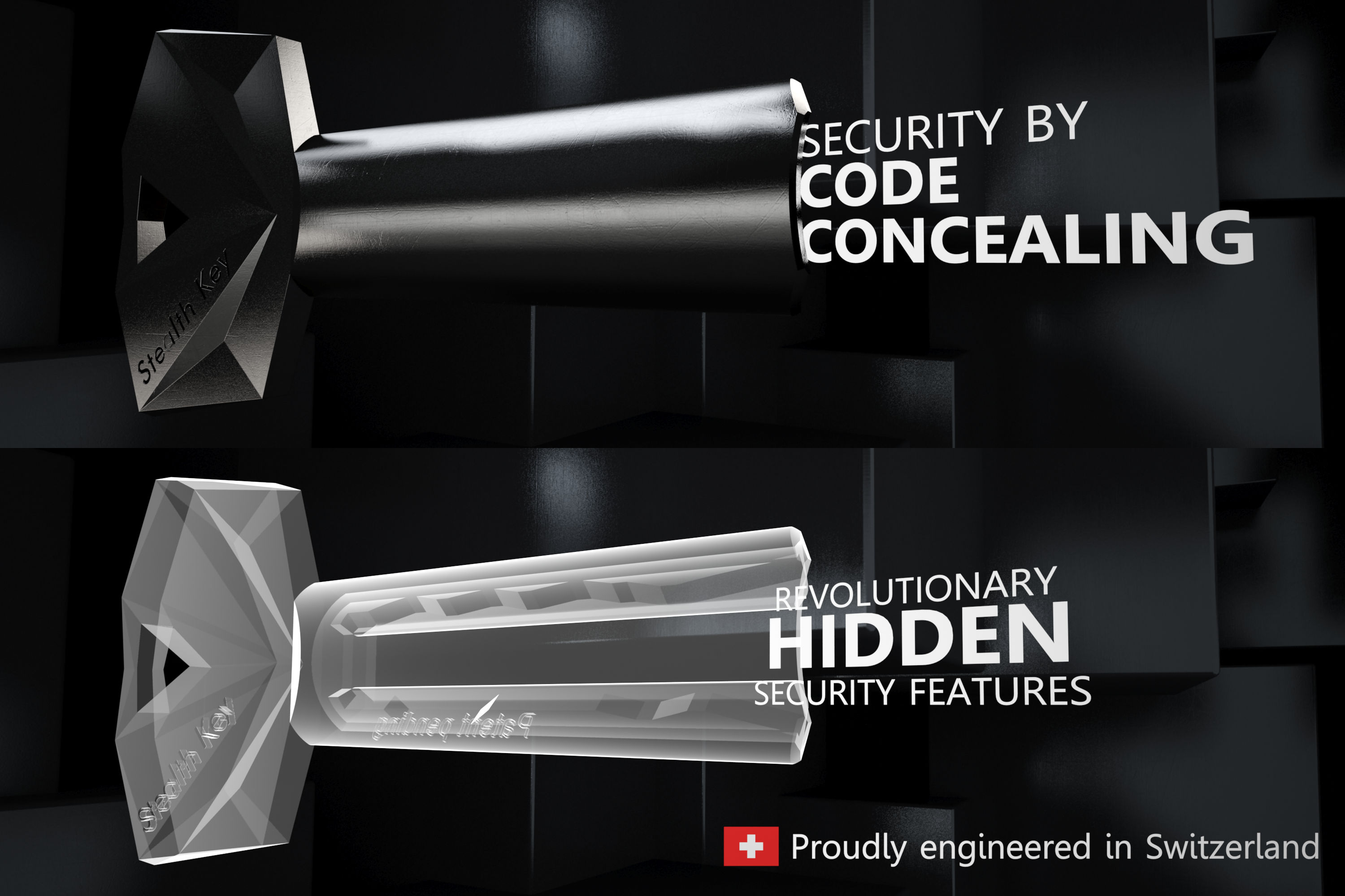 Visual explanation of the Stealth key hidden features Other information I am the cofounder and managing director of UrbanAlps AG and can provide evidence if requested